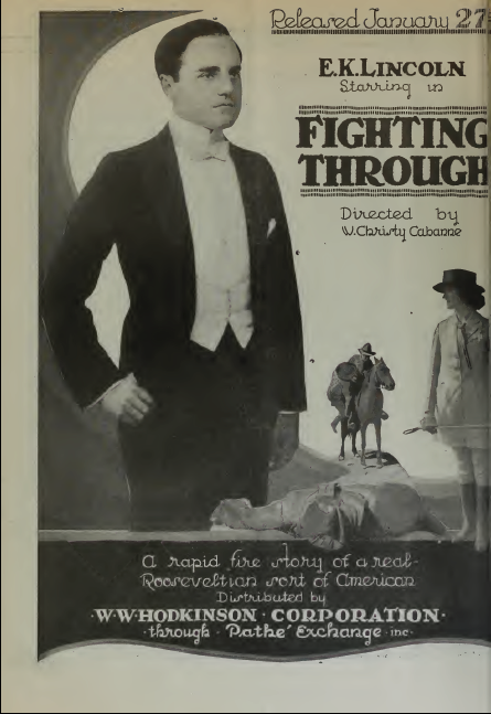 ad for Fighting Through (1919) by William Christy Cabanne, with E K Lincoln